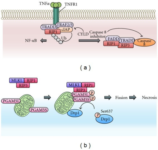 Necroptosis Pathway Diagram